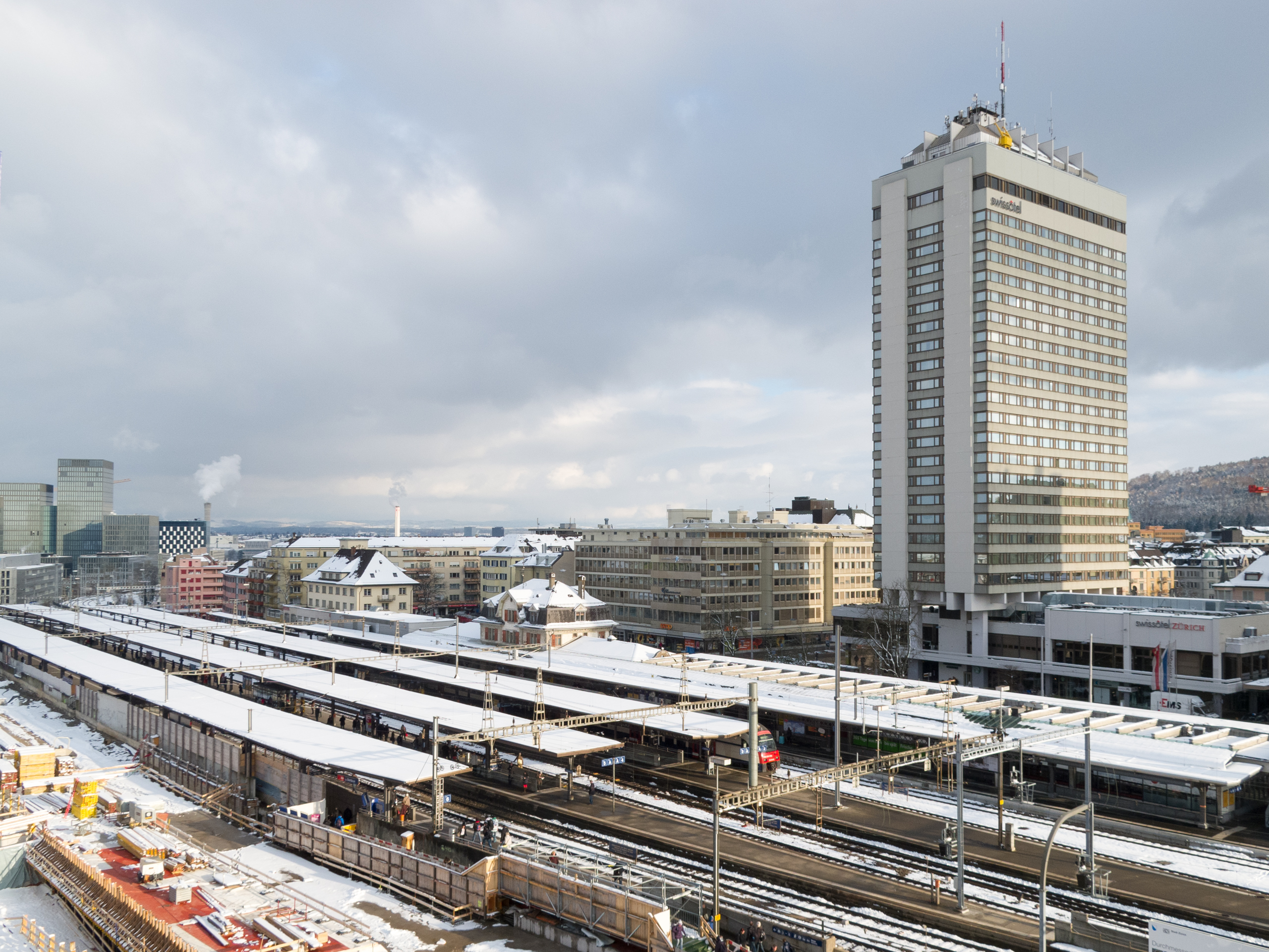 View of the Zurich Oerlikon railway station during construction in February 2013